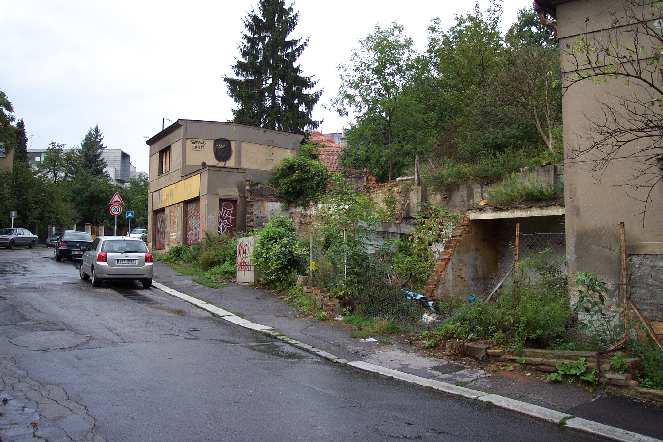 Ruins of Buďánka colony in Prague-Smíchov, CZ